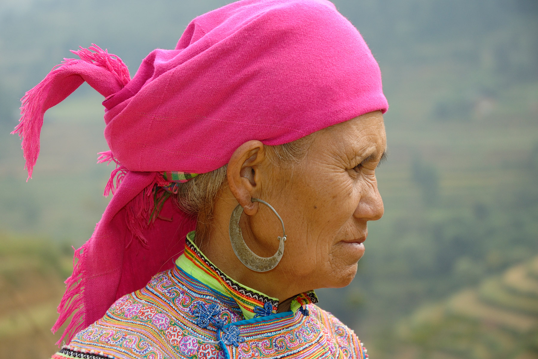 Close portrait of a Flower Hmong woman.